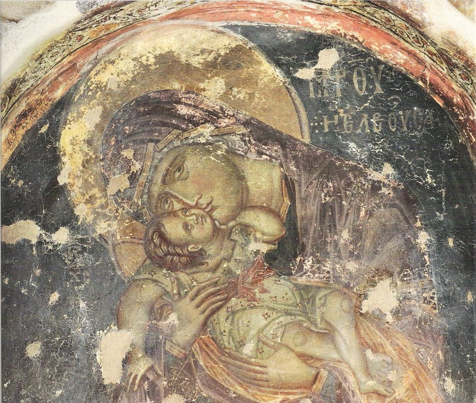 Saint Alypius Church Fresco Fresco